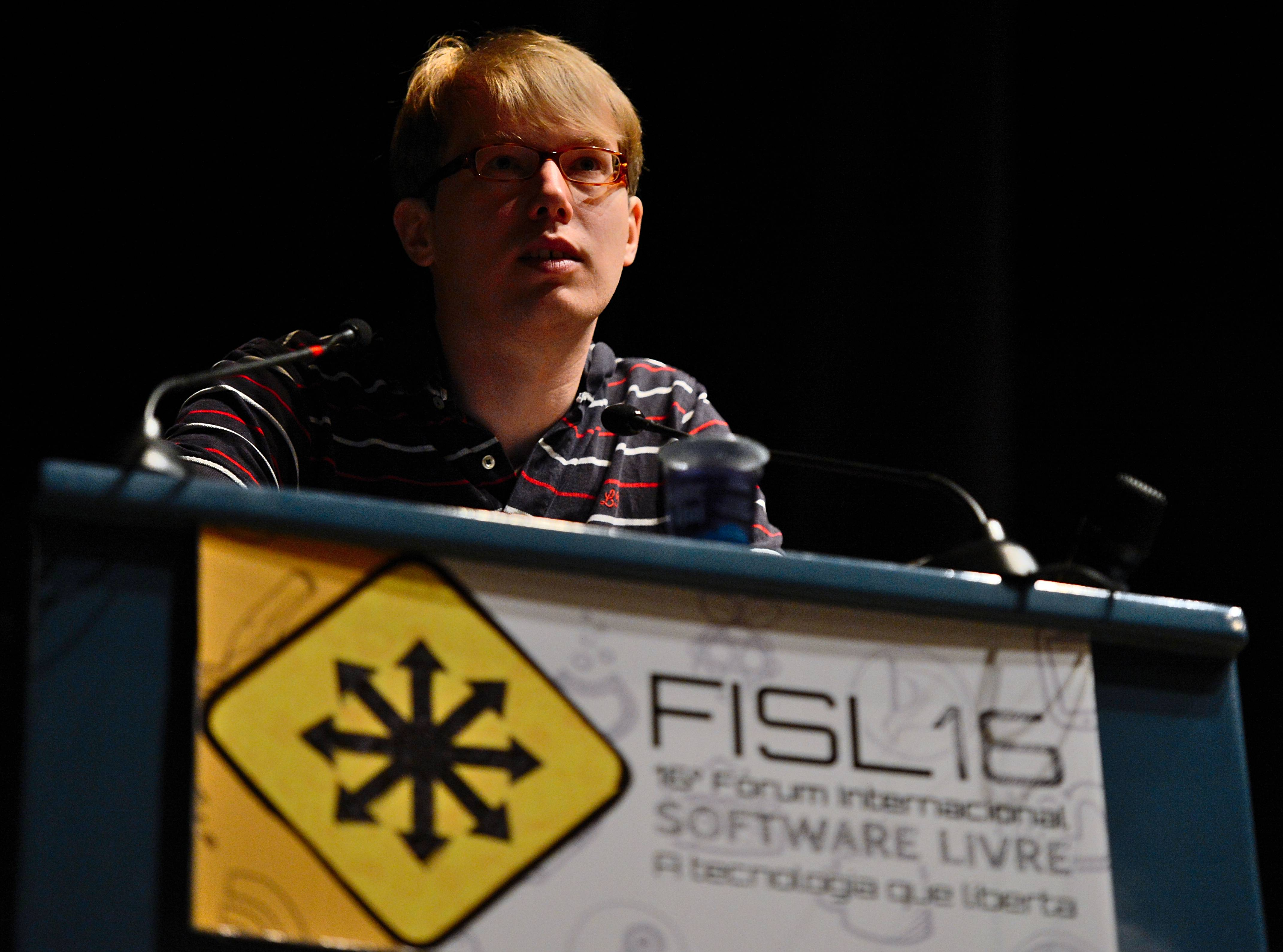 Porto Alegre, 10/07/15 - Fisl16 - Containers and systemd, com Lennart Poettering - Foto: Tárlis Schneider